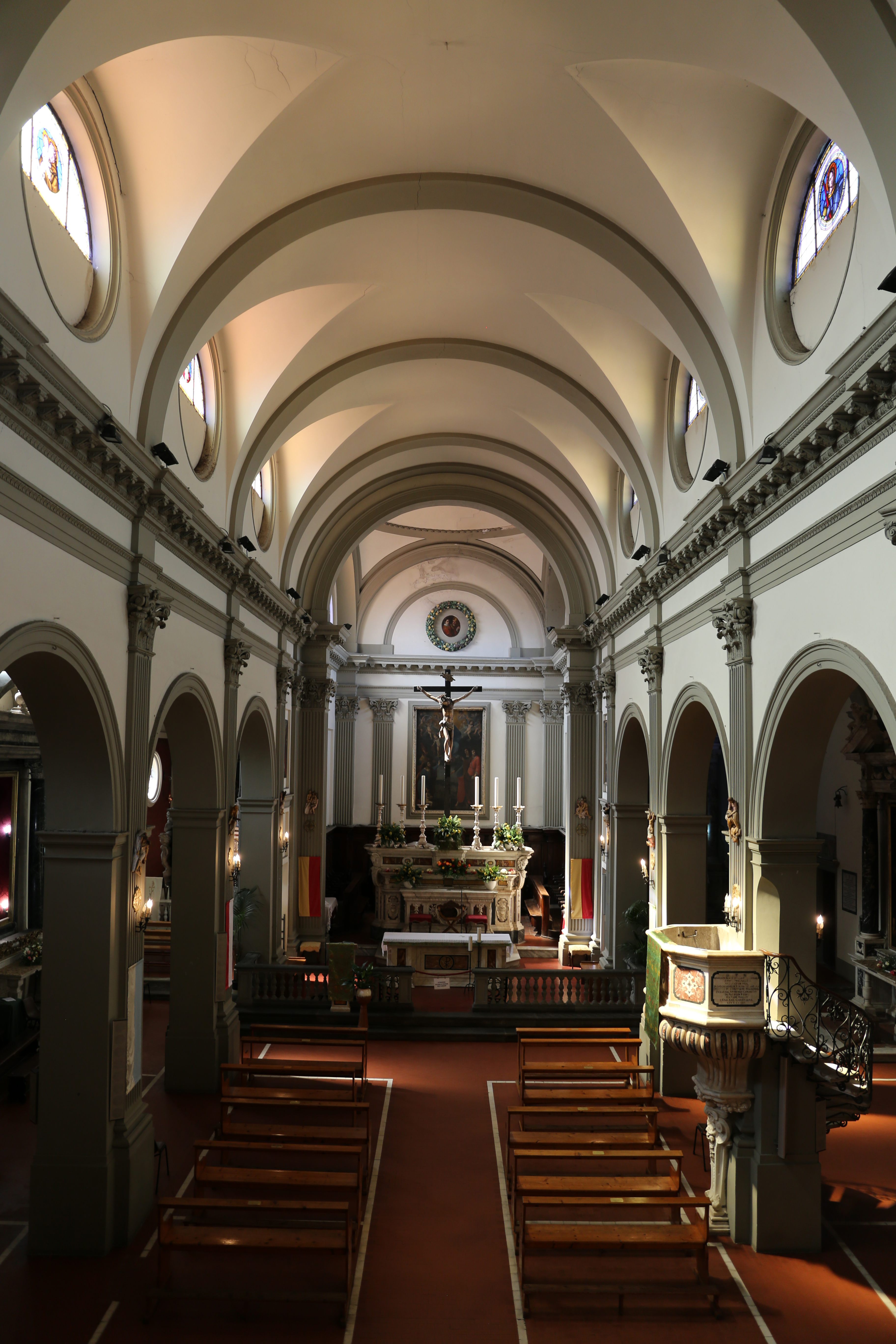 Santi Stefano e Niccolao (Pescia) - Interior